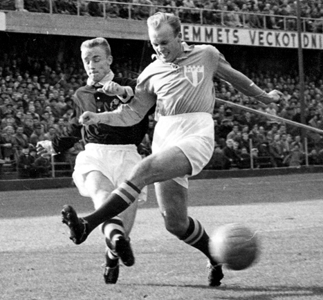 Prawitz Öberg (Malmö FF) and Kurt Liander (AIK), Råsunda 1956.